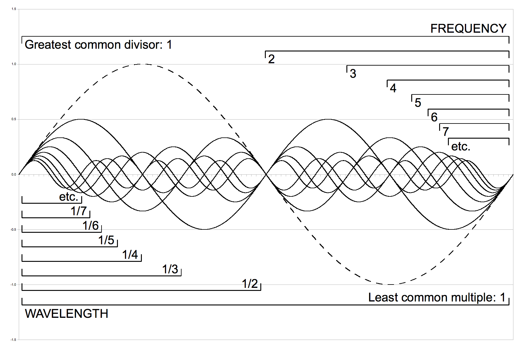 Missing fundamental on 1 (dashed), Fourier series. The period which is the least common multiple of all the harmonics is that of the fundamental. Thus even if it itself is missing, the frequency is still perceptible.